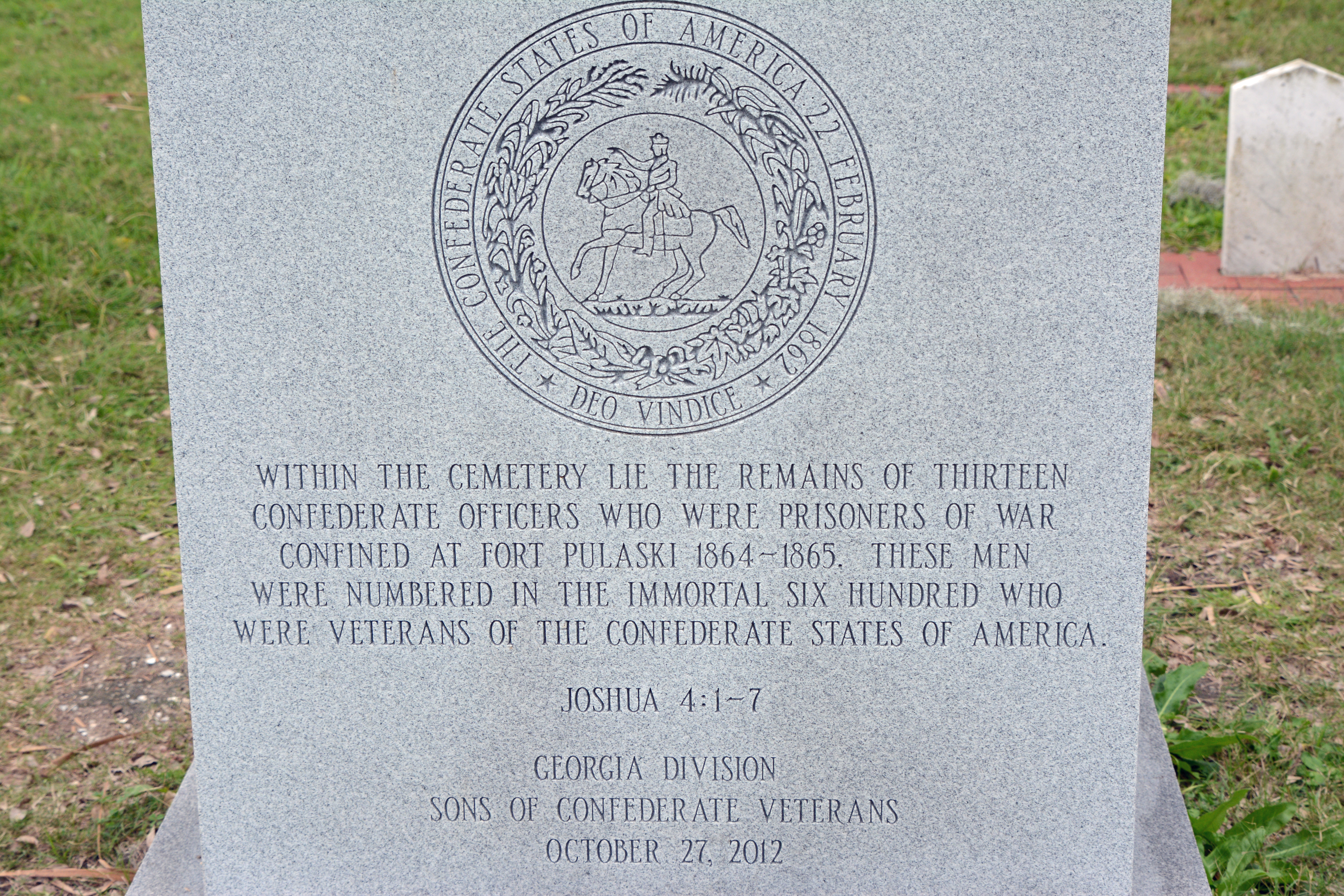 Back if the Immortal Six Hundred memorial, Fort Pulaski National Monument, Georgia, US, erected by the Sons of Confederate Veterans in 2012